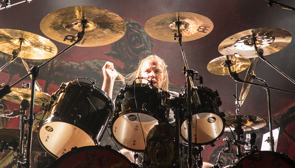 Jürgen "Ventor" Reil, drummer of Kreator.